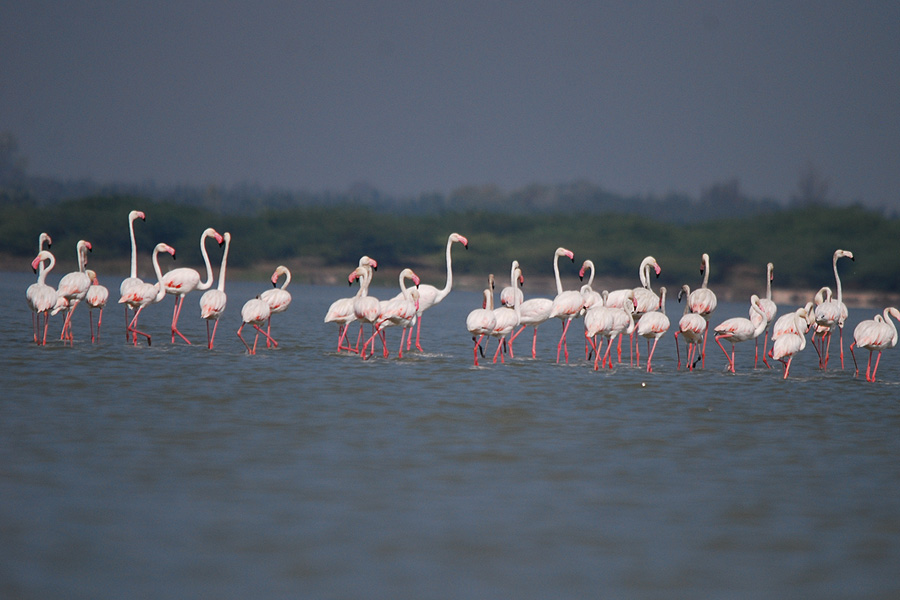 GreaterFlamingo Phoenicopterus roseus - Mudaliarkuppam